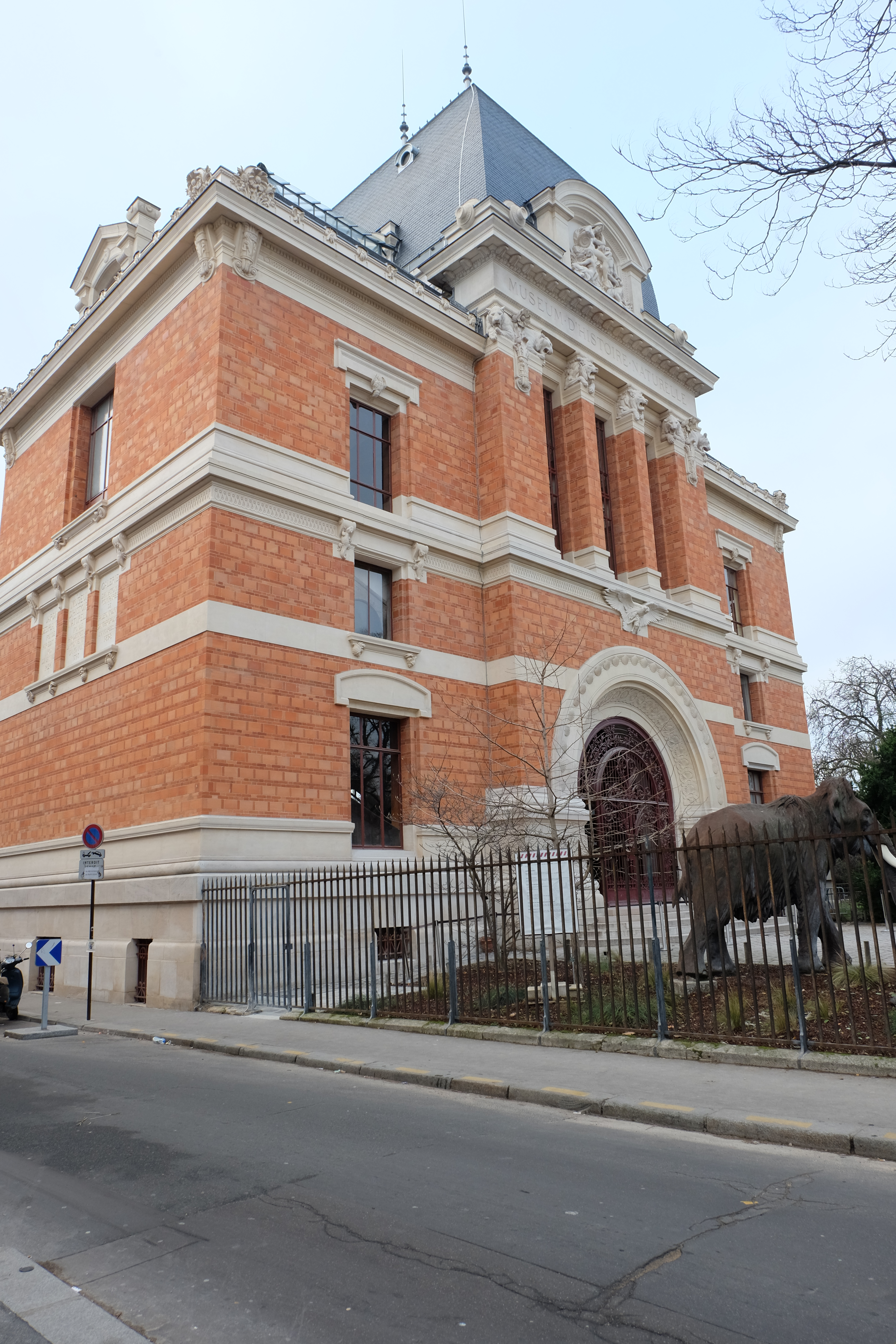 Renovated façade of the Galerie de paléontologie et d'anatomie comparée at the Jardin des plantes, in Paris, France.